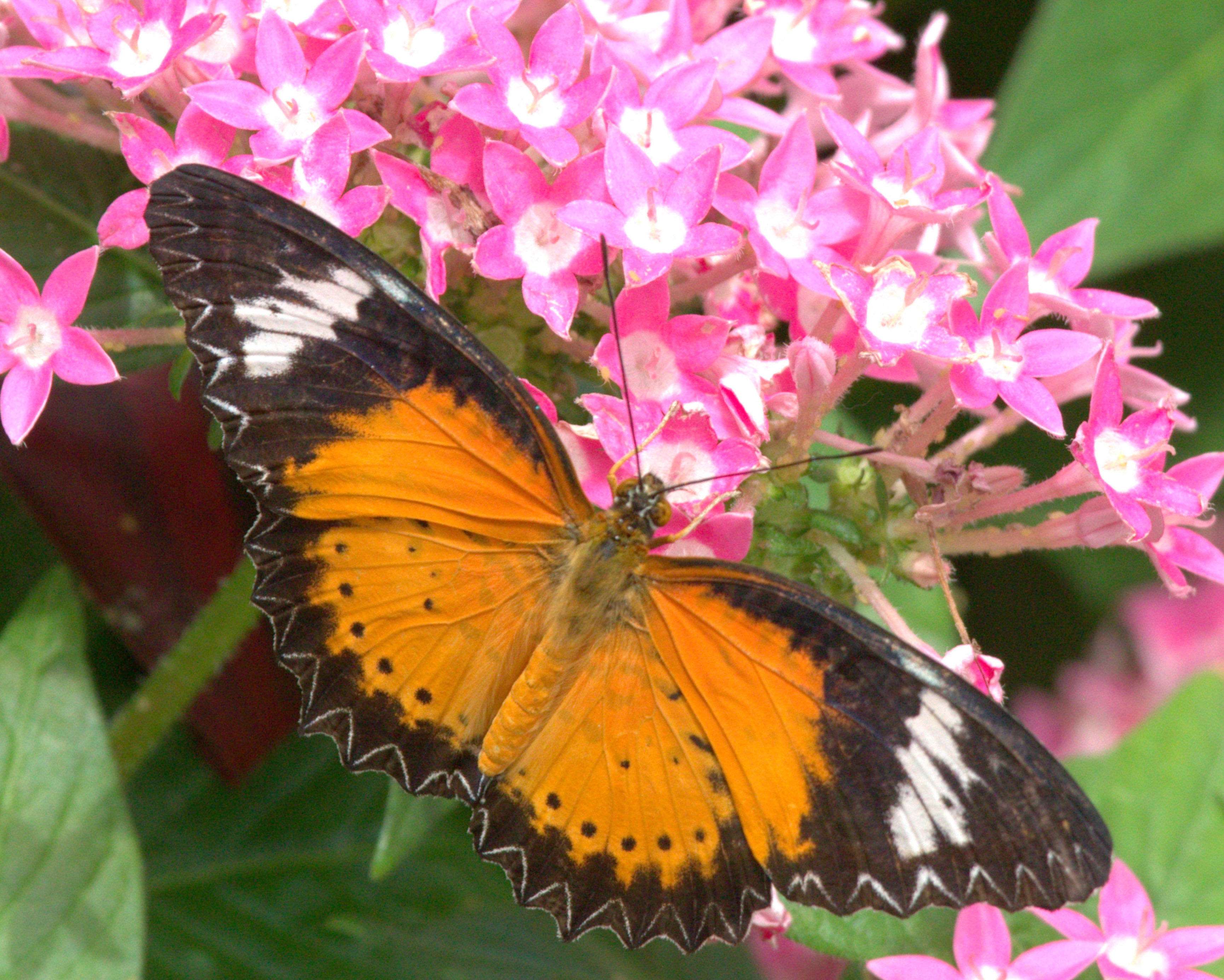 Leopard Lacewing - Cethosia cyane - male. Taken at Krohn Conservatory.